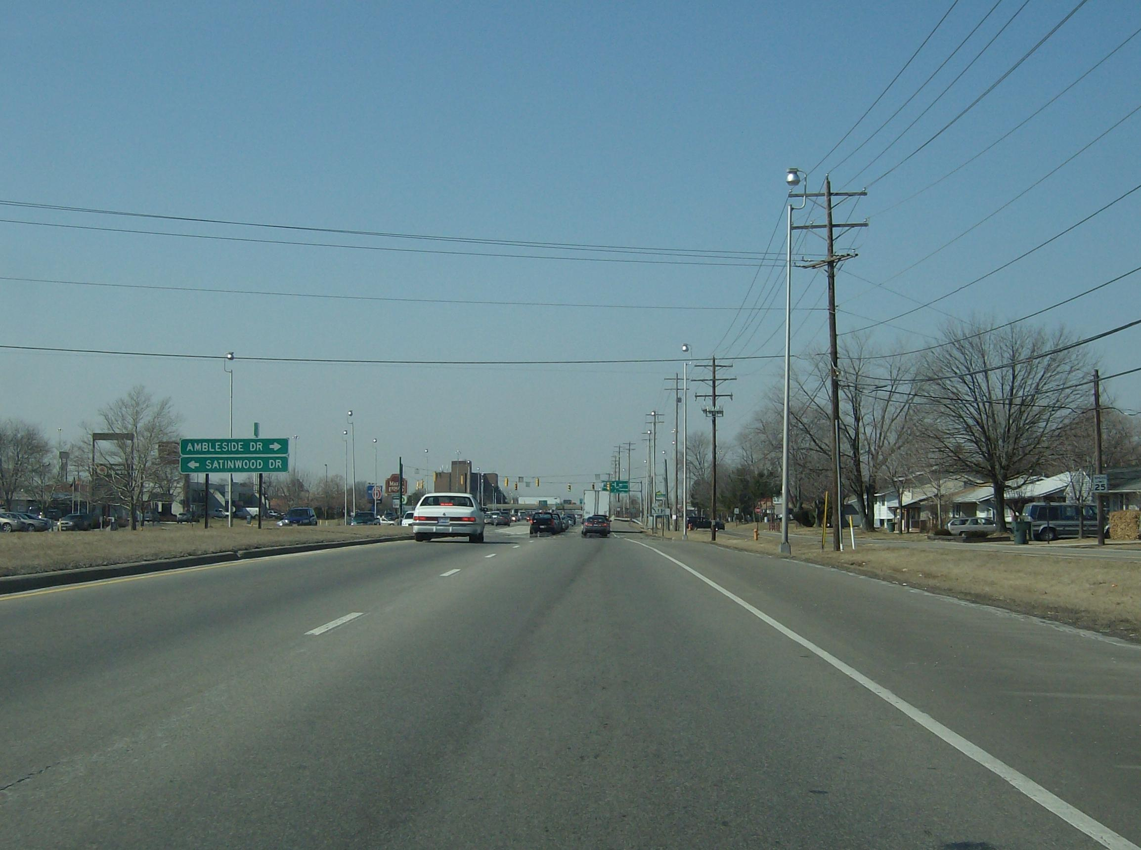 View westward on Ohio State Route 161, just east of Interstate 71.